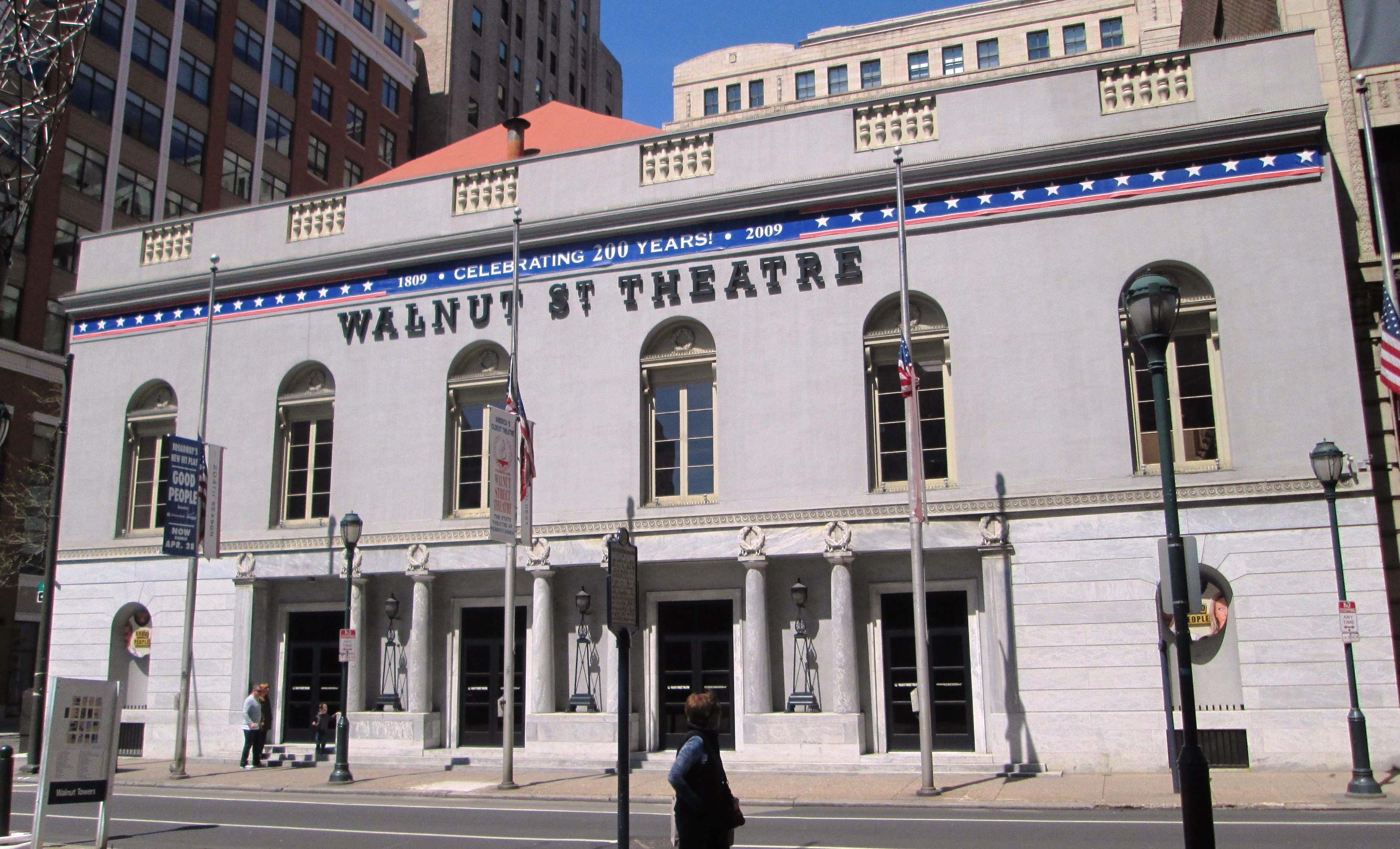 The Walnut Street Theatre at 825 Walnut Street on the corner of S. 9th Street in the Washington Square West neighborhood of Philadelphia, Pennsylvania, is the oldest continuously operating theatre in the English-speaking world and the oldest in the United States. The theatre was built in 1809 for the Circus of Pepin and Breschard under the name The New Circus, and was designed by Willimam Strickland in the Classical Revival style. The theatre has also been called the Olympic and the American; it was first called the Walnut Street in 1820, but that name was not used continuously. The theatre was renovated in 1828 by John Haviland, in 1903 by Willis Hale and in 1920 by William H. Lee.